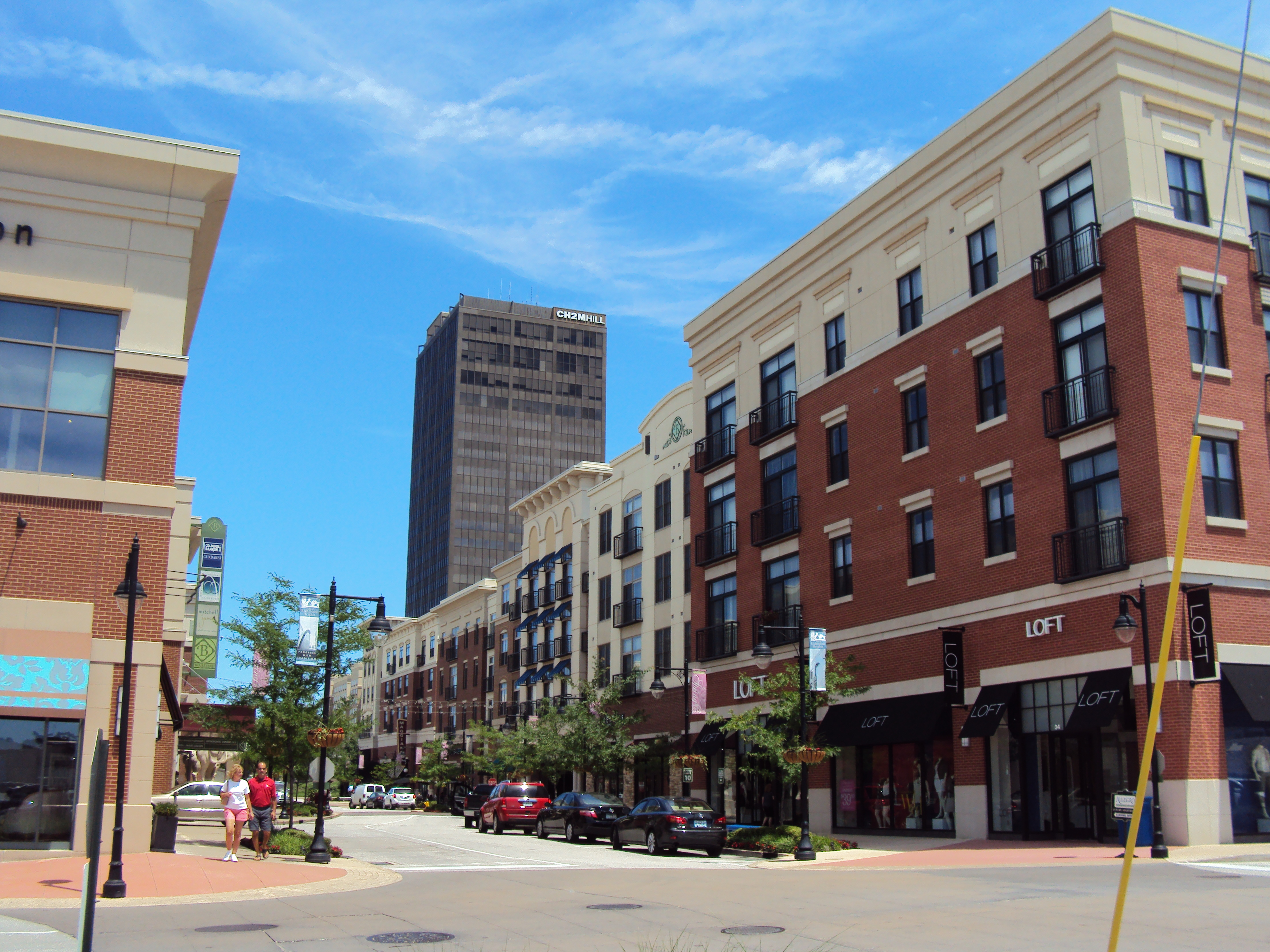 The Boulevard from the South